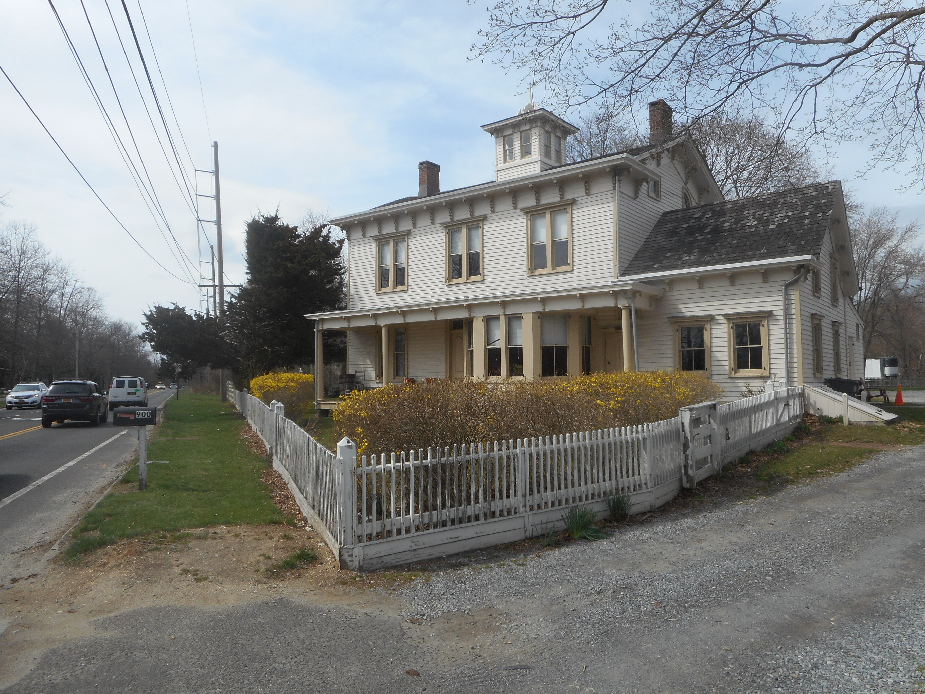 The main farmhouse of the NRHP-listed Henry Smith Farmstead, now know as the John Gardiner Farm at 900 Park Avenue (Suffolk CR 35), at the corner of Little Plains Road in Huntington Station, New York, although it's actually closer to Greenlawn, New York. Admittedly, I thought this was a different structure and I was wrong, but what the hell? You've got pictures of this place instead.